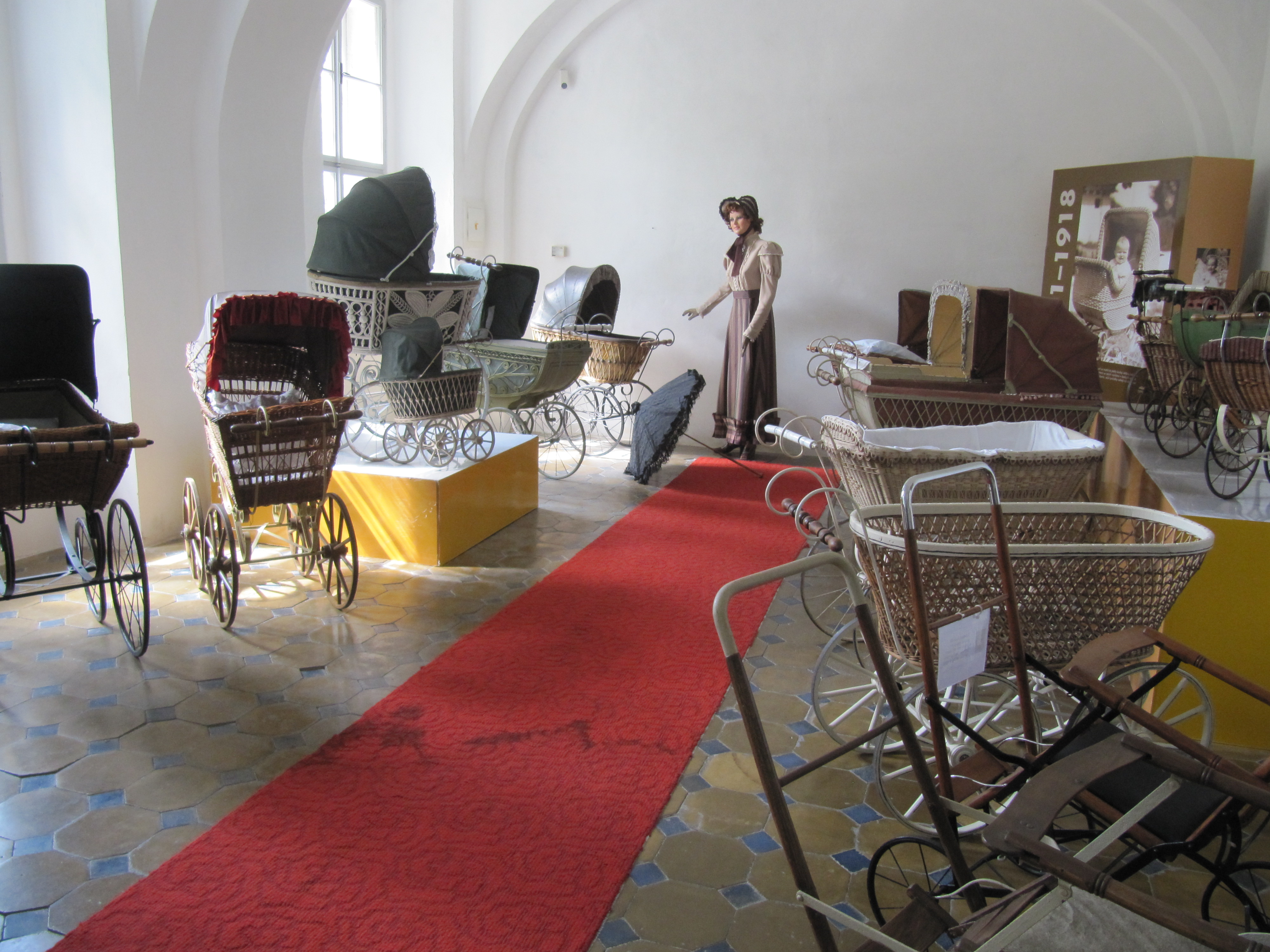 Náměšť na Hané, Olomouc District, Czech Republic. Chateau, exhibition of historical baby carriers.